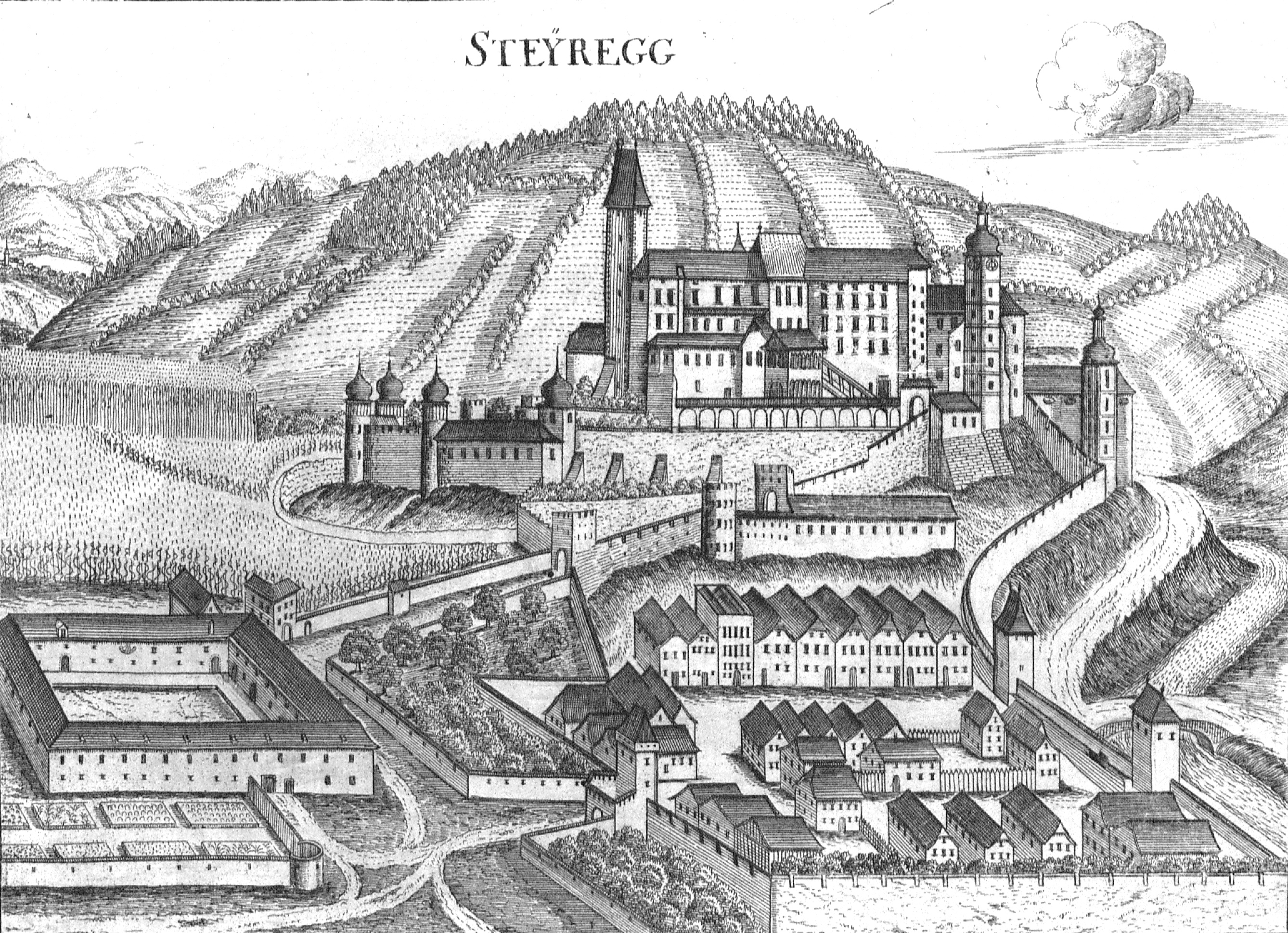 Palace Steyregg in Upper Austria, drawn by M. Vischer 1674.